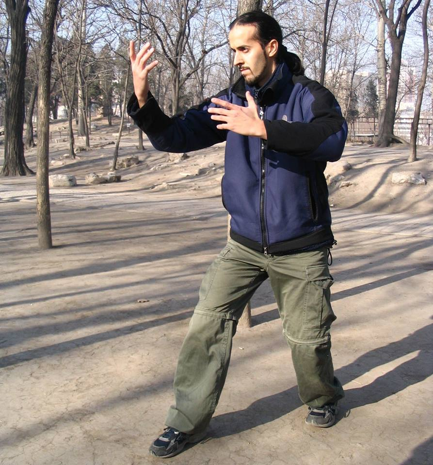 This is a picture of Nitzan Oren, a teacher of Xing Yi Quan, practicing a Zhan Zhuang posture.